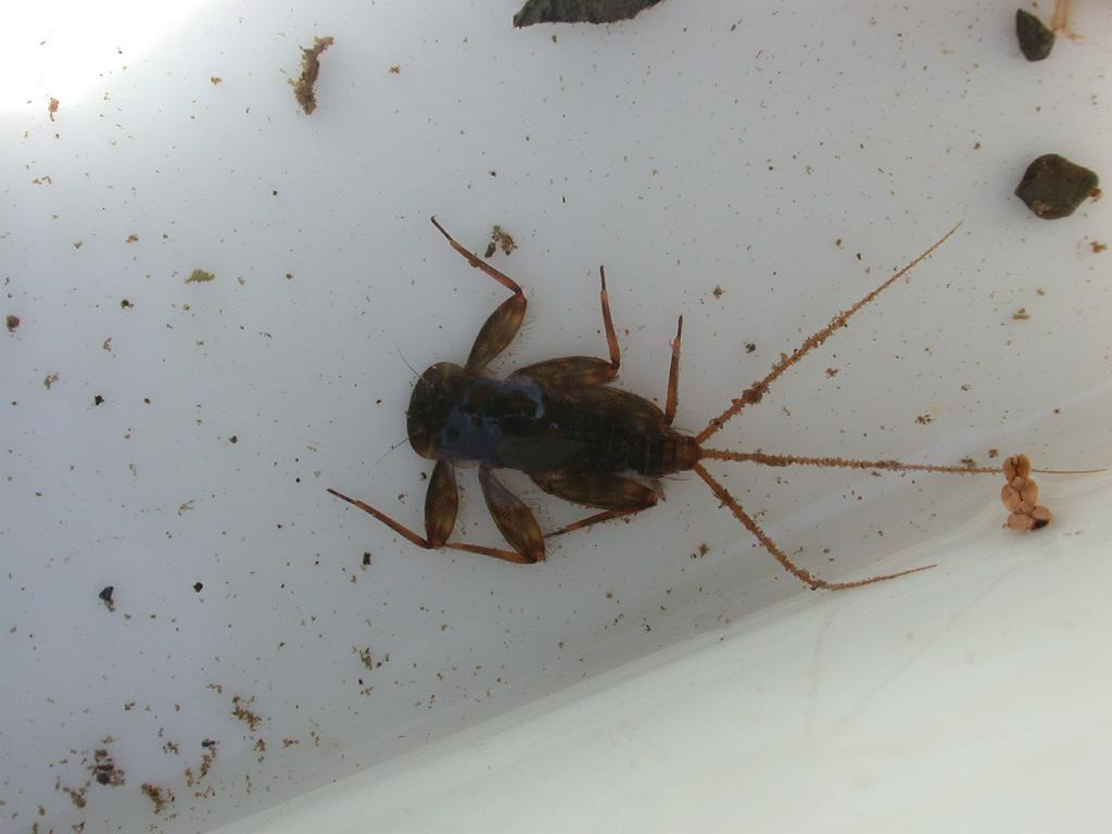 Ecdyonurus tobiironis(Heptageniidae):larva Japanese name:Kurotanigawakagerou Date;2007,03;Tanabe city, Wakayama prefecture, Japan Author;Keisotyo